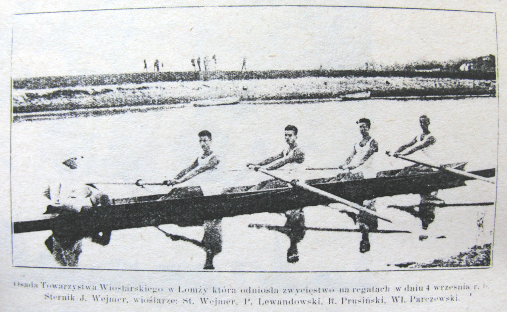 Team of Rowing Association from Łomża during regatta playing on Narew River on September 4, 1927